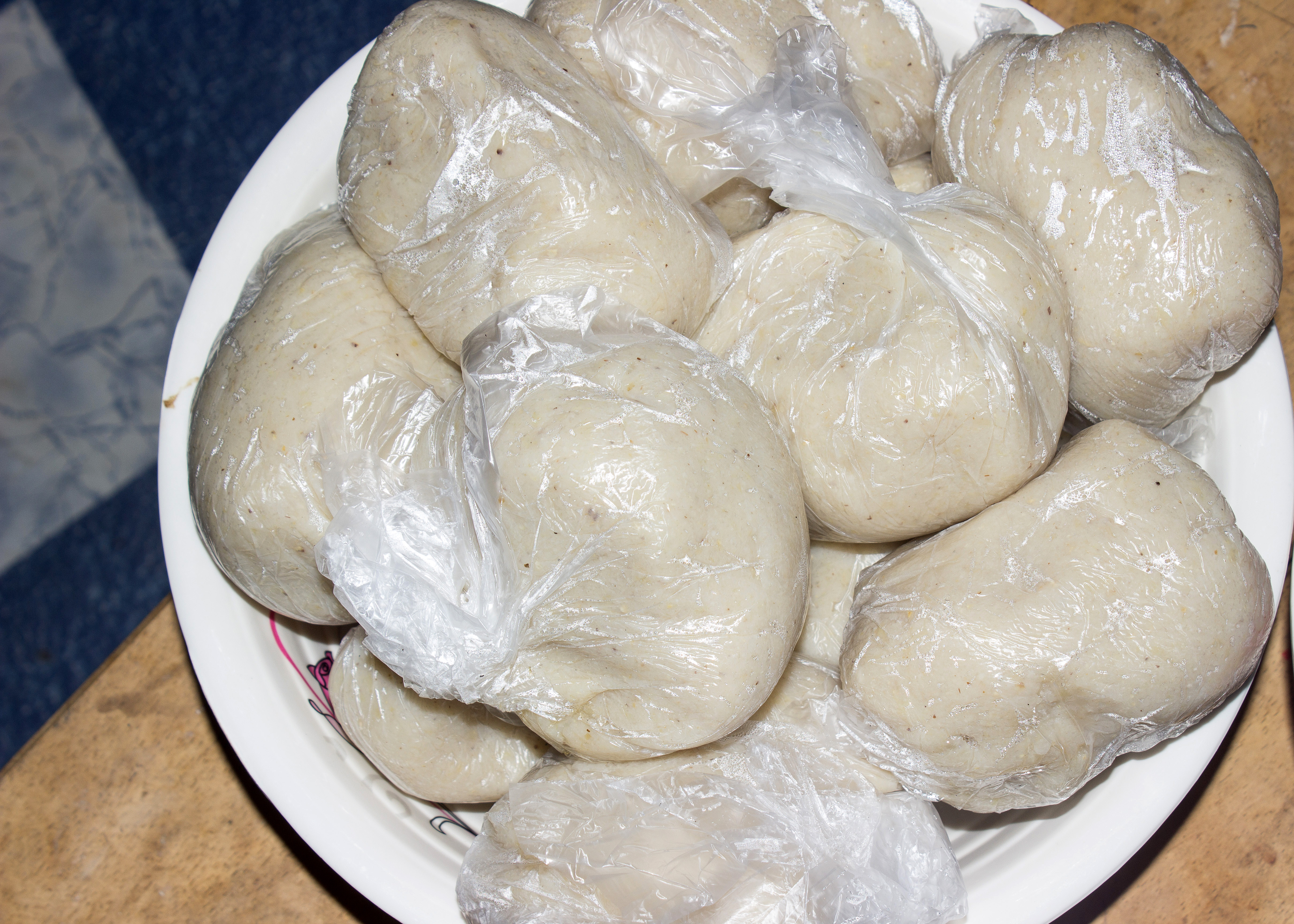 BANKU, neatly wrapped in transparent polythene This is an image of food from Ghana